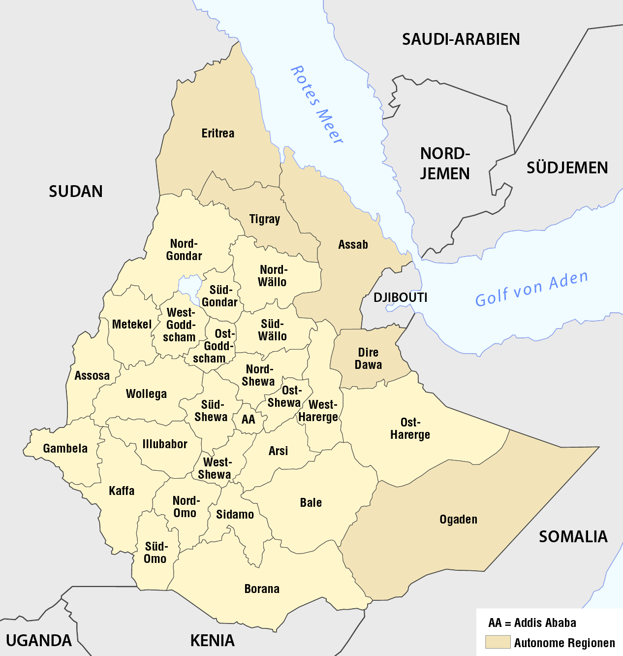 Map of the 30 regions of Ethiopia, 1987-1991